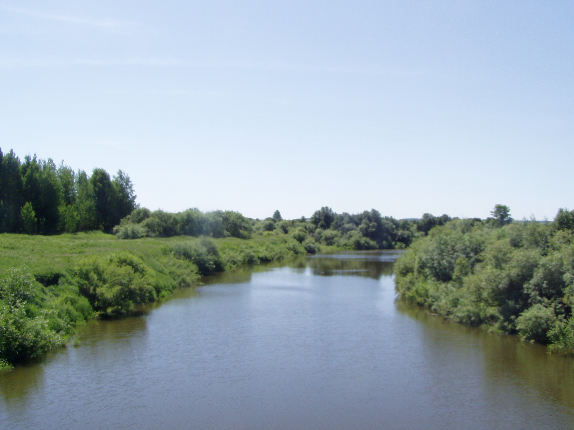 View on the Izh river, Pizhanka rayon, Kirov oblast, Russia